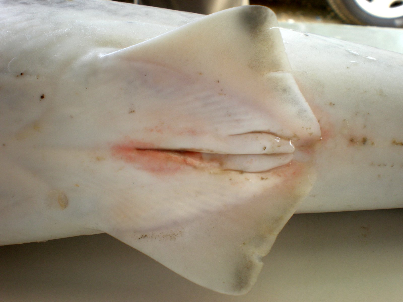 Carcharhinus brevipinna, male. Detail of external male parts (claspers). Locality: from fish market, Nouméa, New Caledonia (probably caught near Nouméa City). Total Length 860 mm, Weight 2,800 grams. Date 2009-10-23.